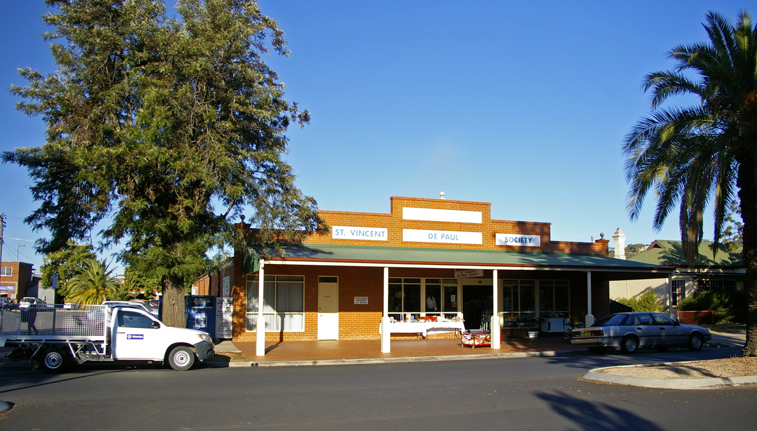 St Vincent De Paul Society Opportunity shop in Wagga Wagga, New South Wales. The building was destroyed by fire on 22 April 2012.